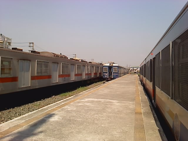 PNR 12:05